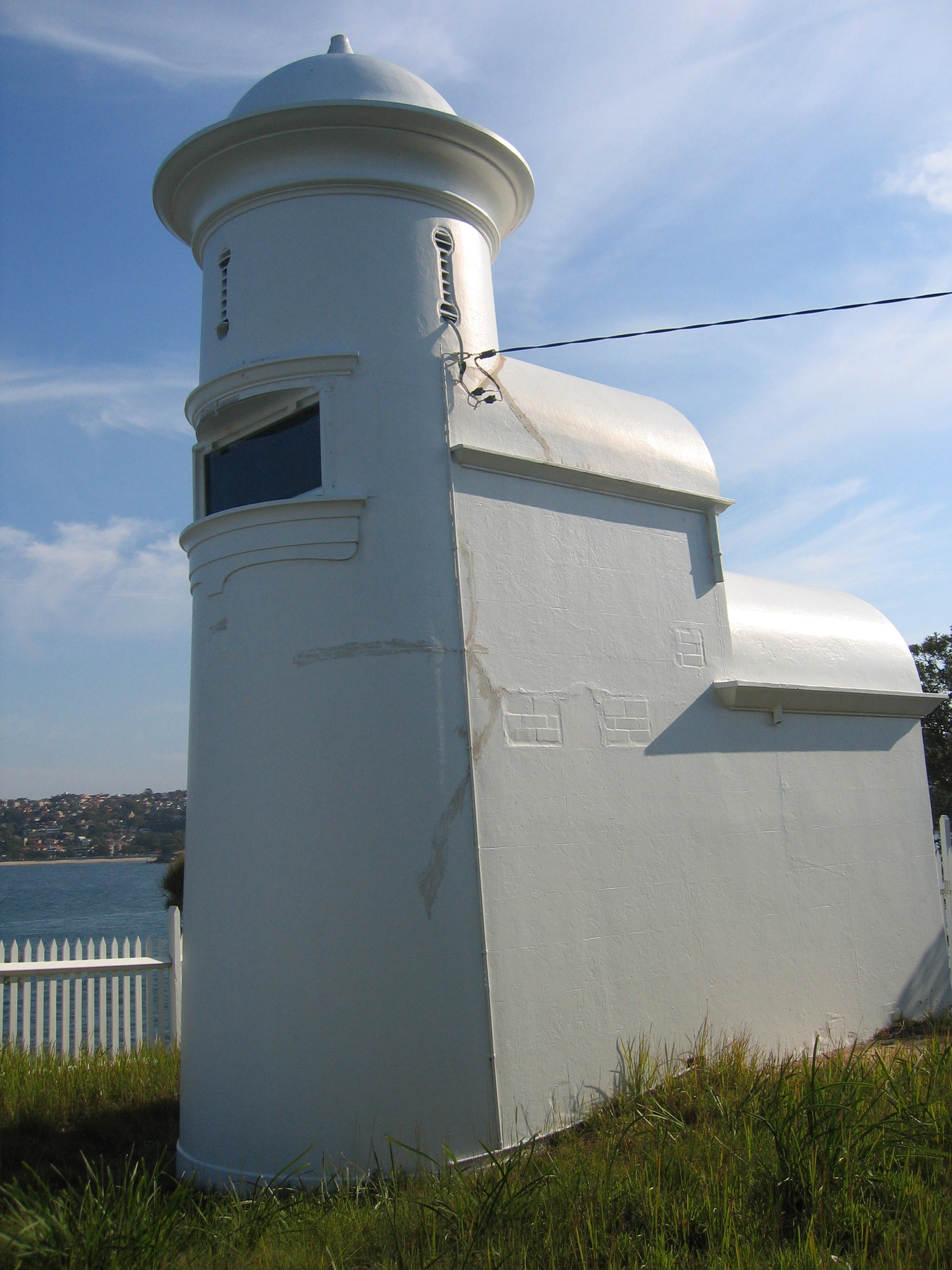 Photo taken by Brian Egge Apr 4, 2007.